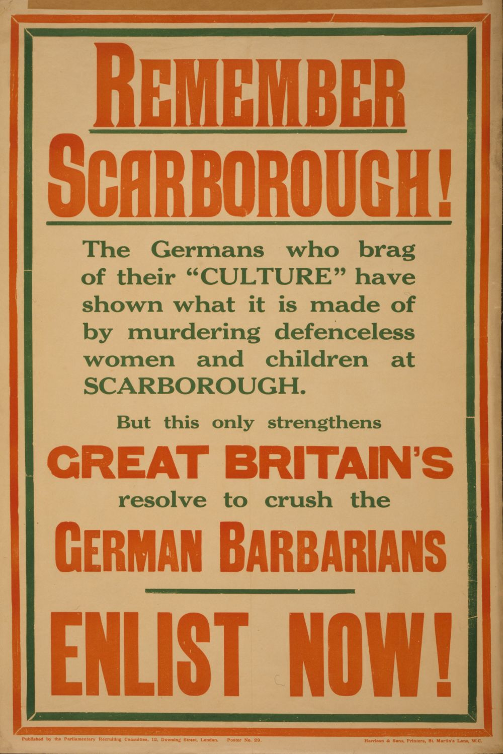 British recruitment poster : "Remember Scarborough ! ... Enlist Now !".